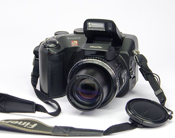 FujiFilm S602z digital camera, 6 Megapixel SuperCCD, 6x optical zoom